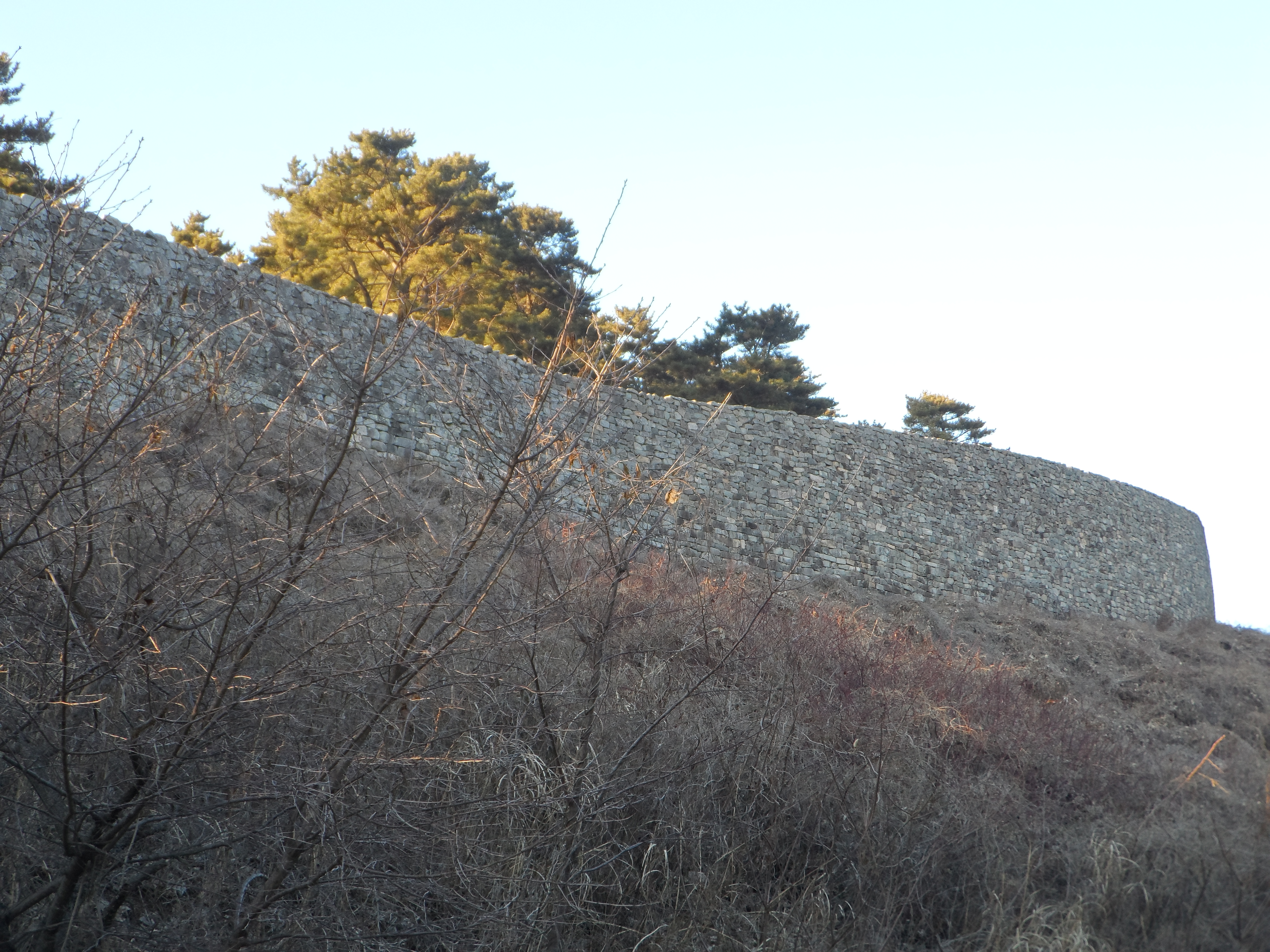 This is a photo taken outside Pyewang fortress in Dundeok-myeon, Geoje-si, South Korea.